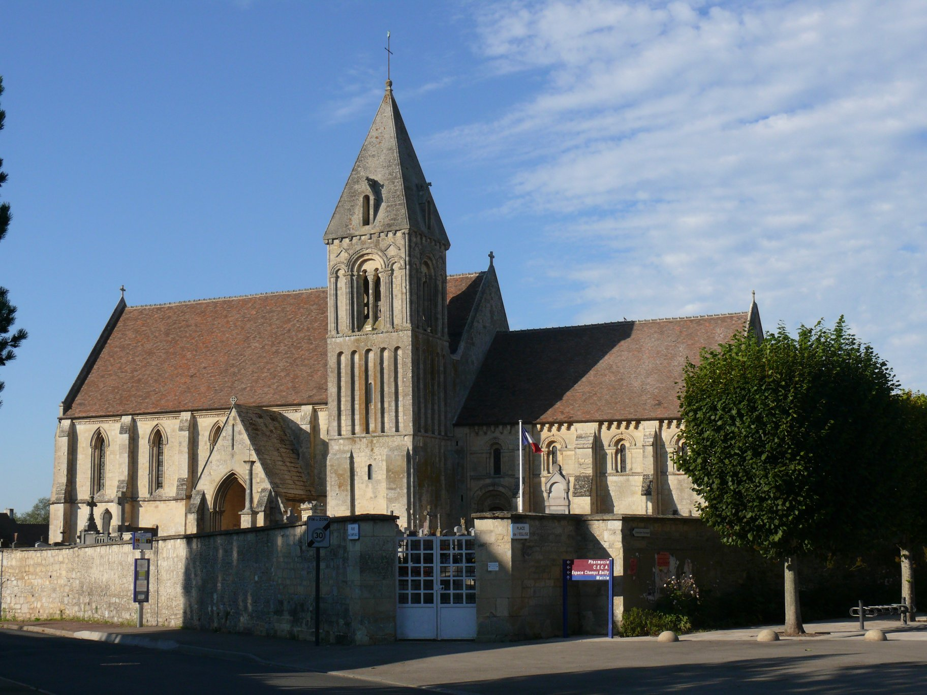 Saint-Contest's church of Saint-Contest (Calvados, Normandie, France).